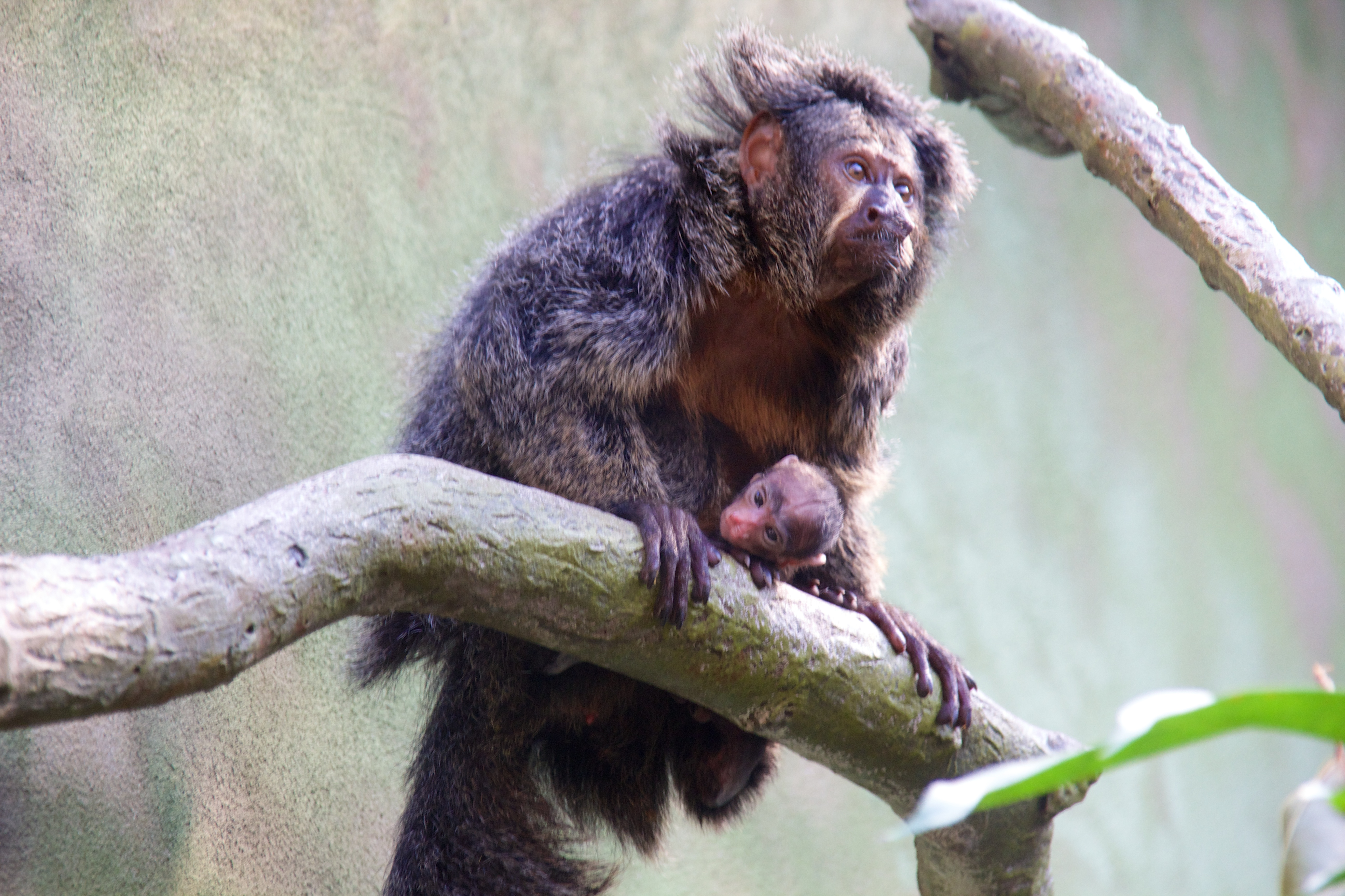 White-faced Saki. Pithecia pithecia. At Frankfurt Zoo.